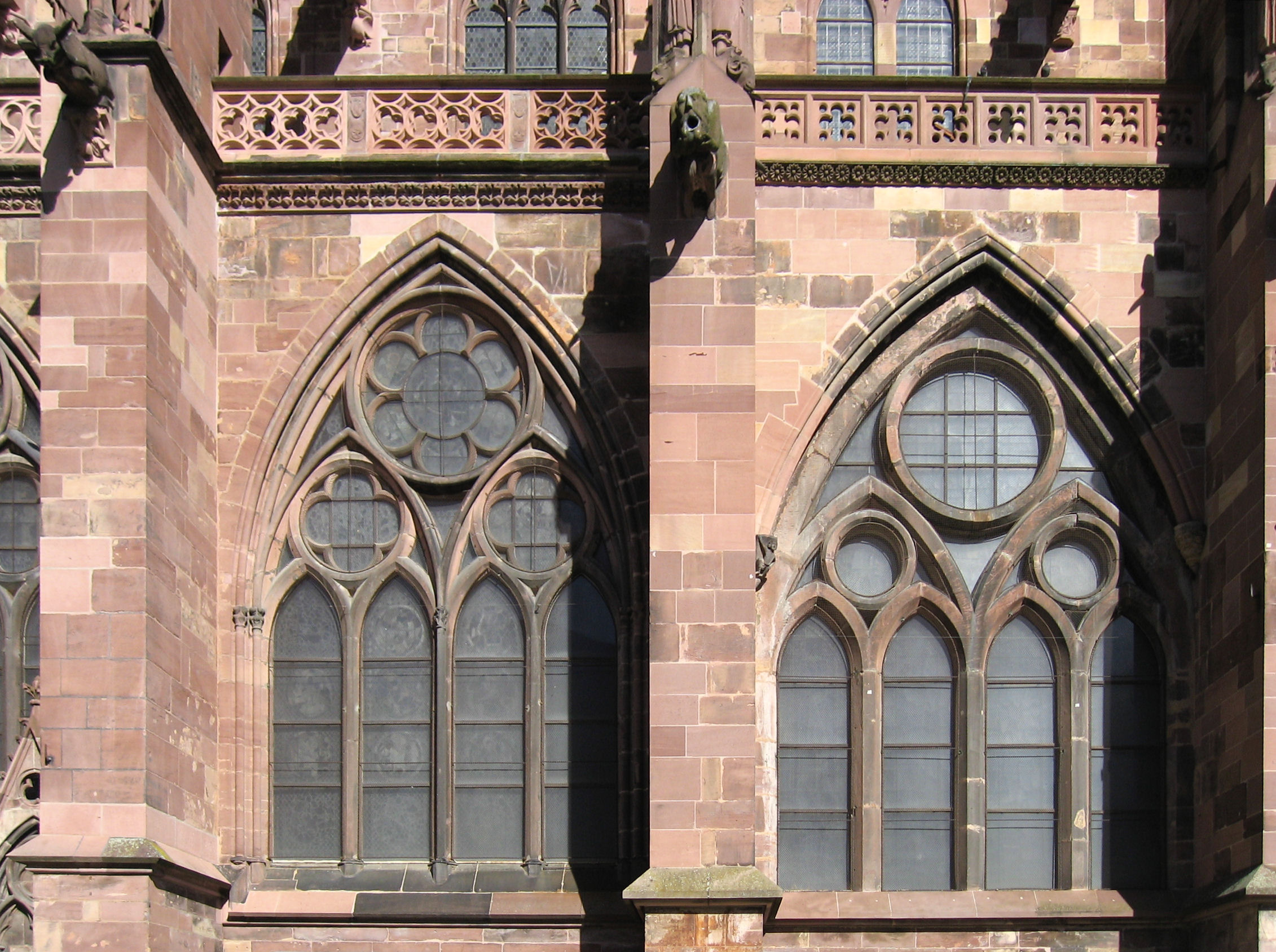 Comparison of the tracery in the first and the second bay window of the gothic nave counting from the transept constructed in Romanesque style